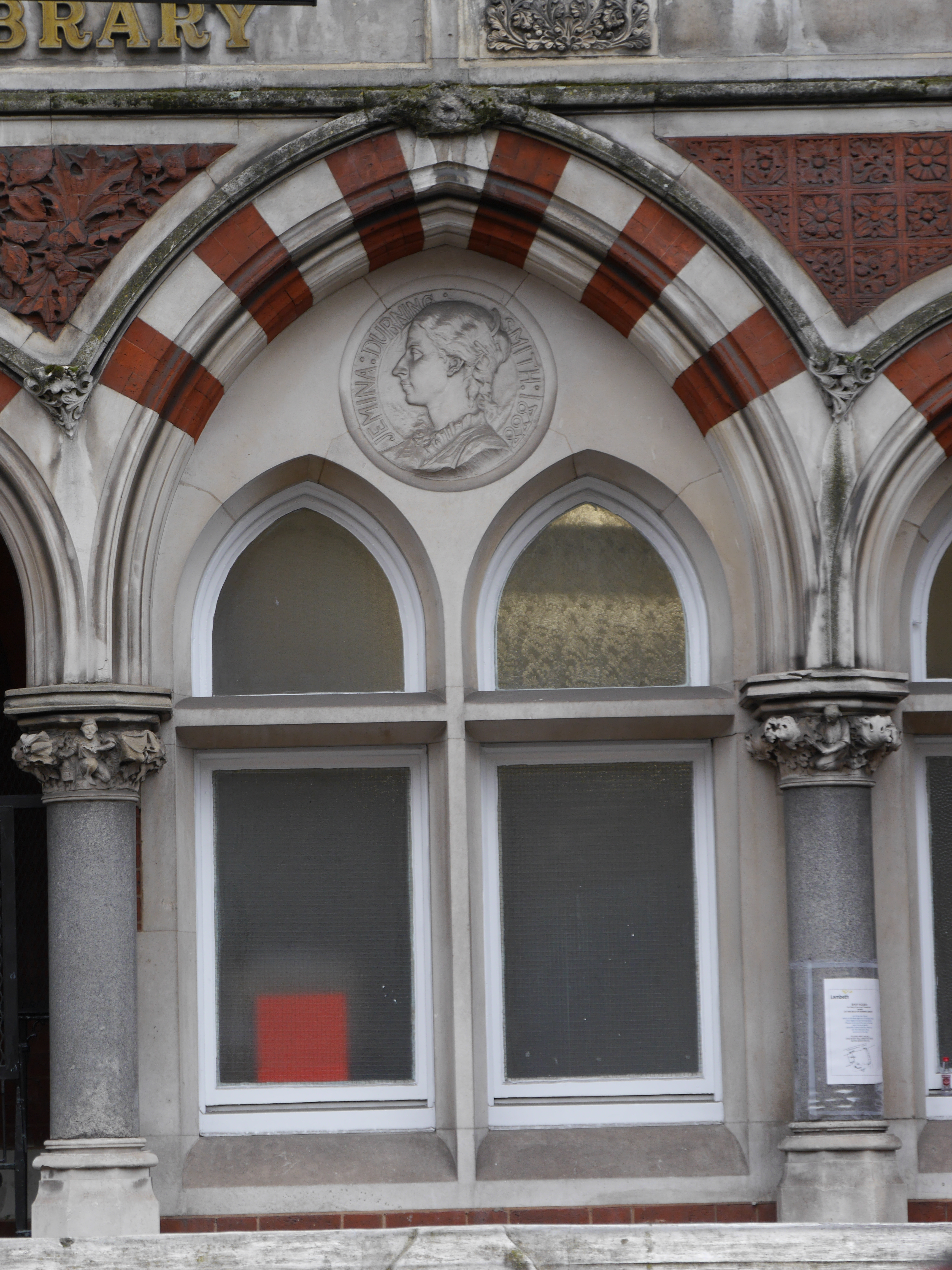 Durning Library, October 2014